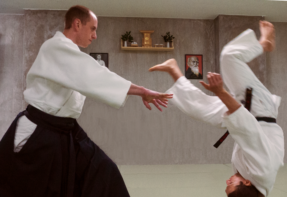 Shite 仕手 throws uke 受け in a Yoshinkan aikido dojo with kamidana 神棚 and pictures of Ueshiba Morihei and Shioda Gozo in the background.